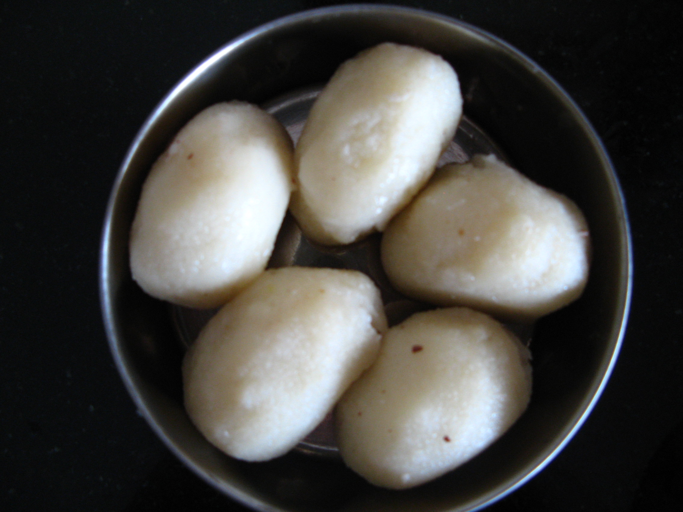 Manda pitha (Odia Cuisine)